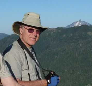 William Ripple, a professor at Oregon State University, at Iron Mountain in 2010. Other information